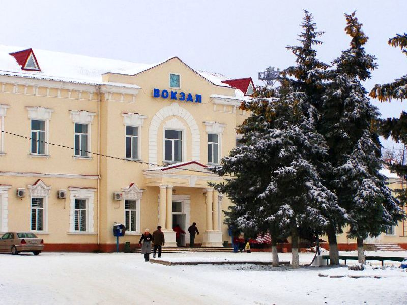 The rail terminal of Podilsk, Odessa Oblast, Ukraine